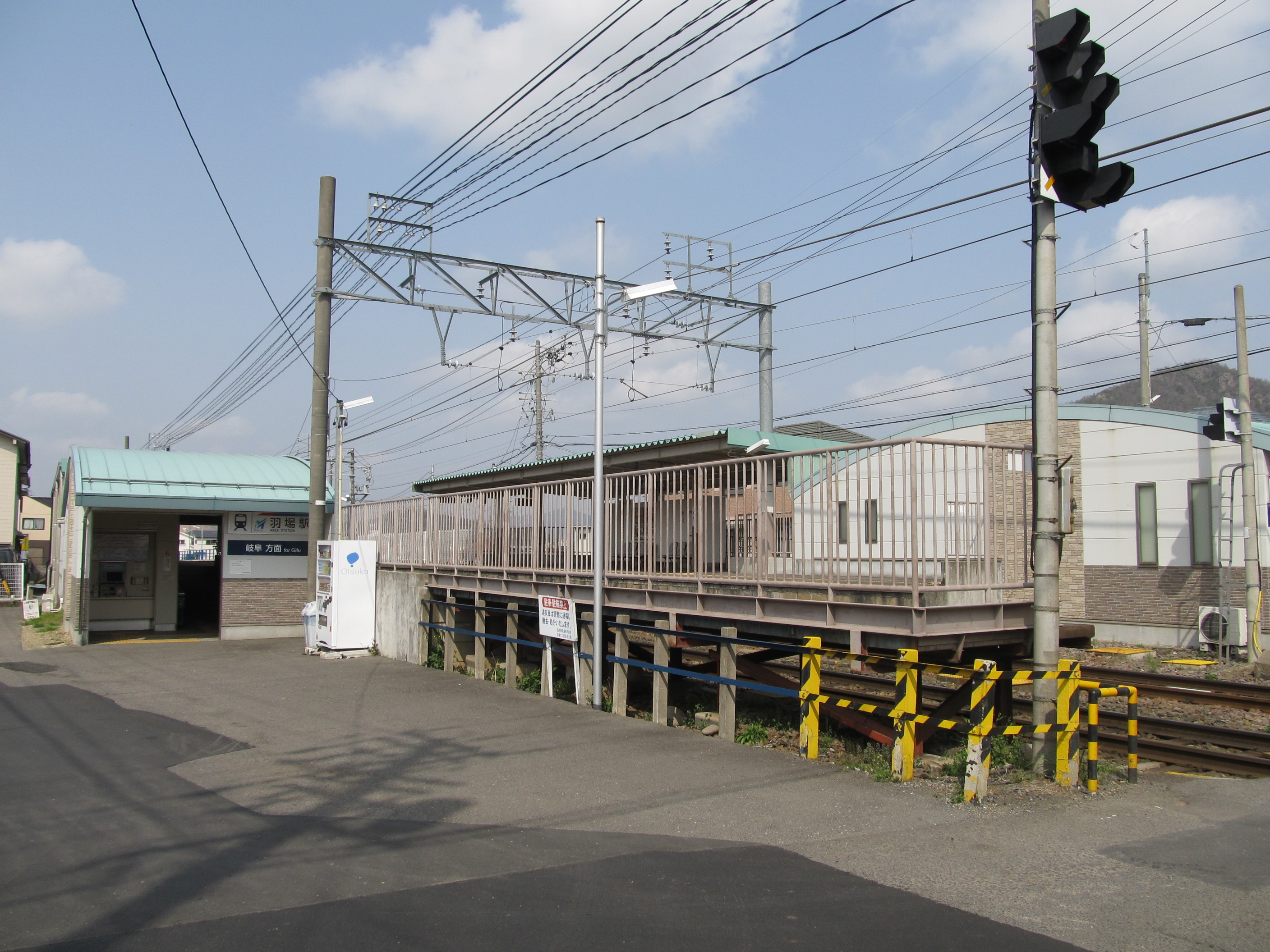 Nagoya Railroad Kakamigahara Line Haba Station.